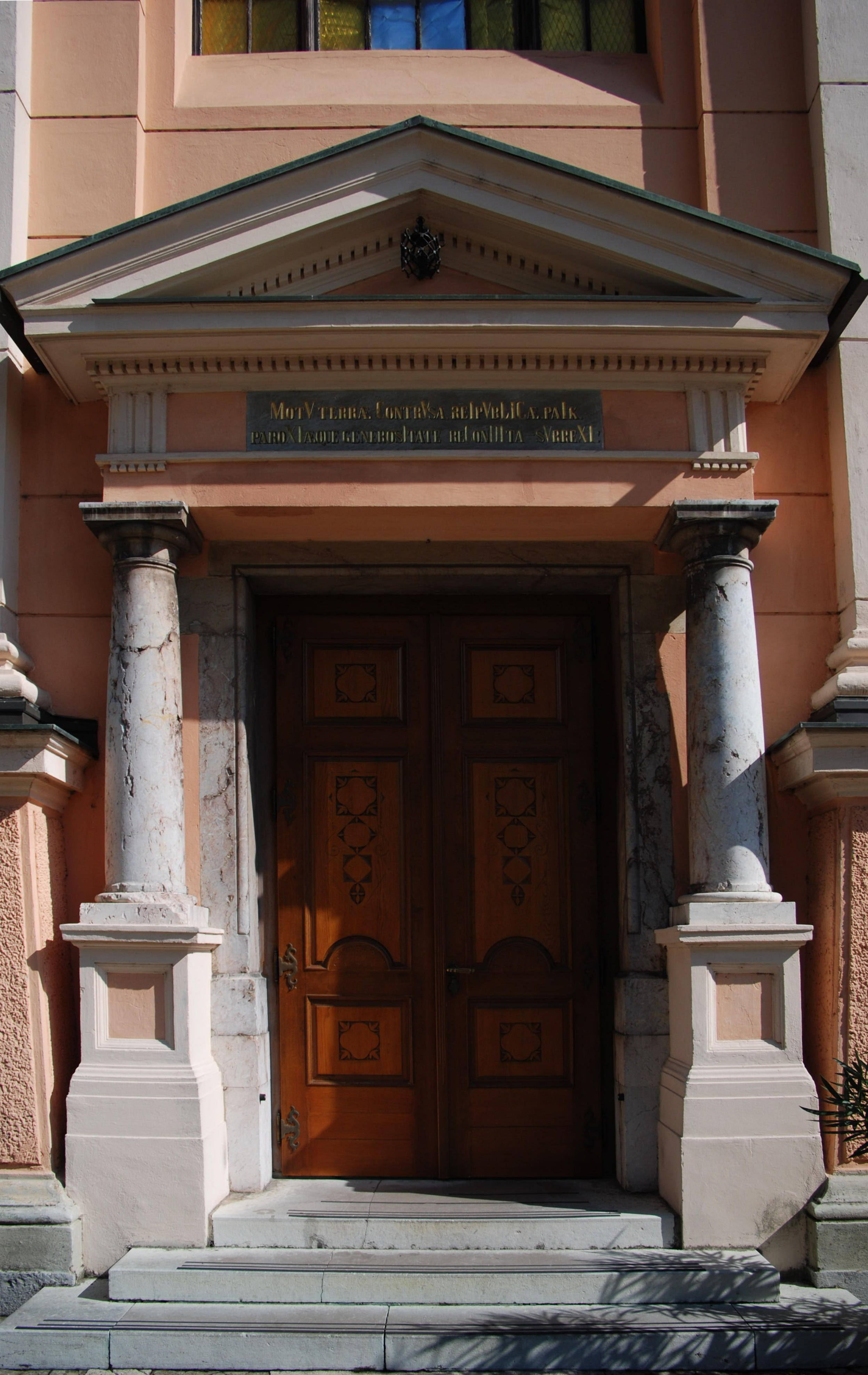 The portal of Ascension of Mary Parish Church in Polje, Ljubljana.